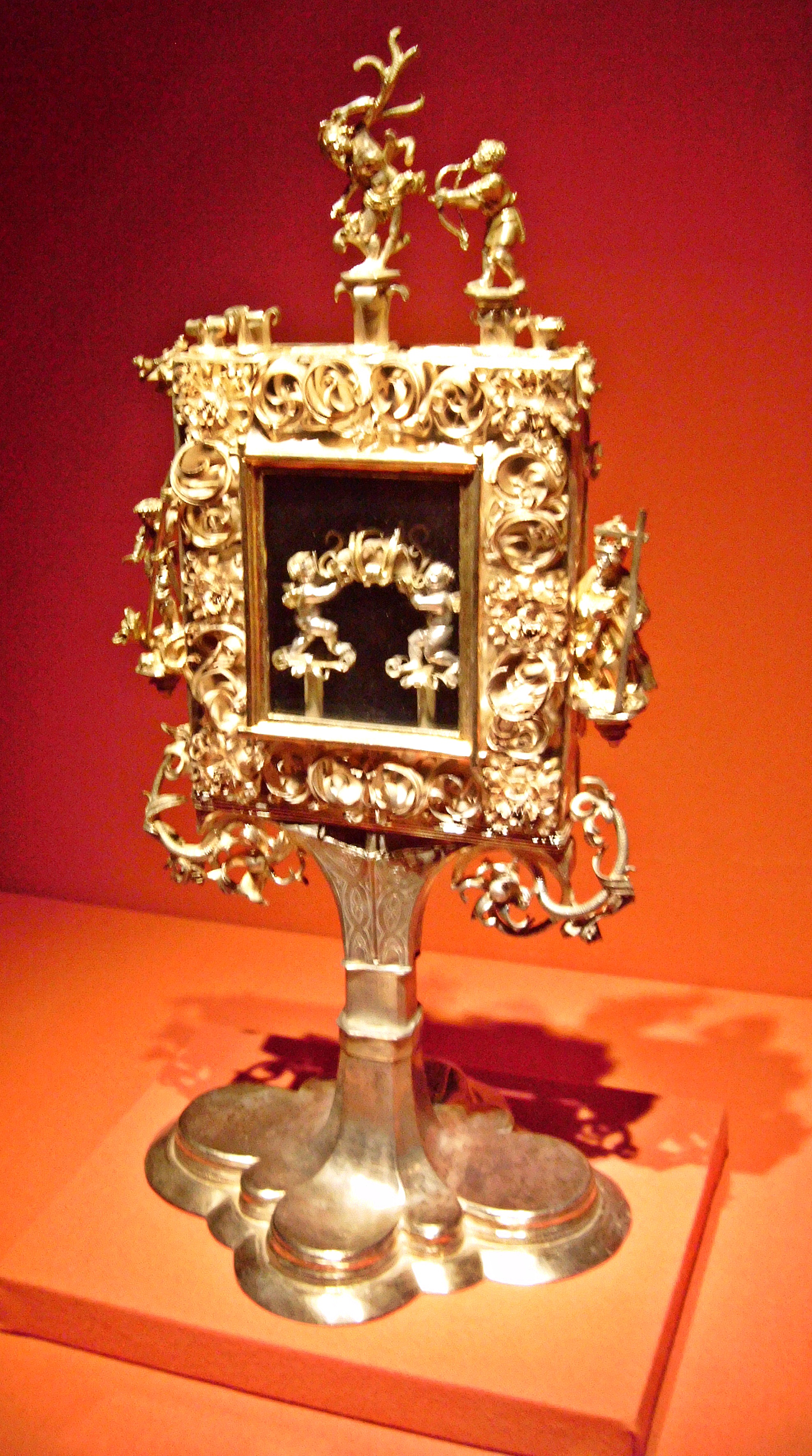 Sebatiansreliquiar aus St. Laurentius Dirmstein, jetzt Historisches Museum der Pfalz, Speyer, gestiftet vom Wormser Bischof Reinhard von Rüppurr (+ 1533)